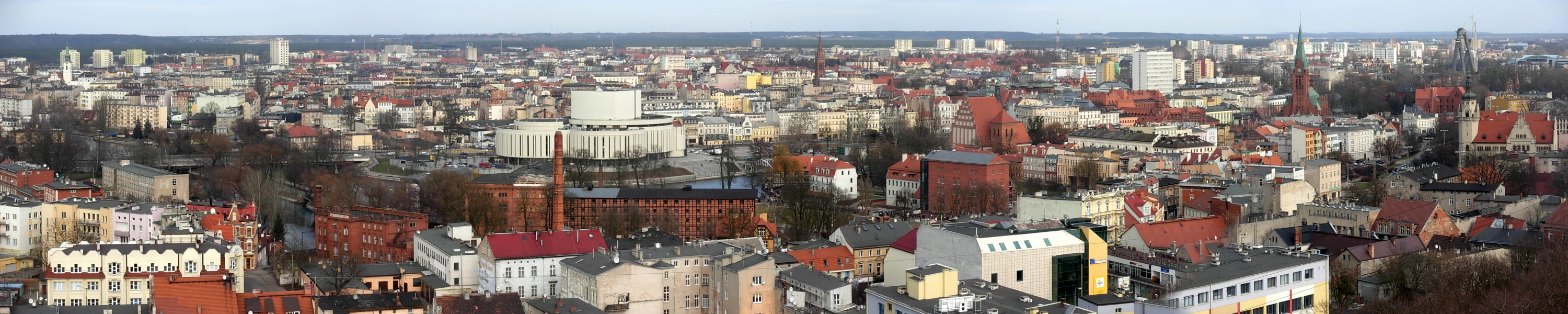 Panorama of Bydgoszcz - view from the observation gallery on the water tower